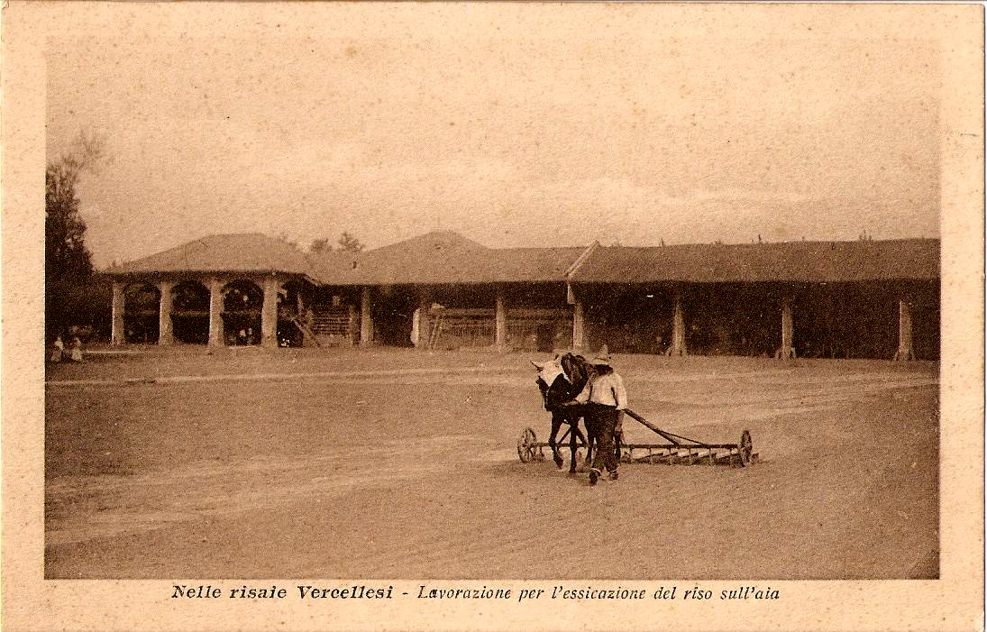 Paddy fields near Vercelli (Italy) in early 1920s